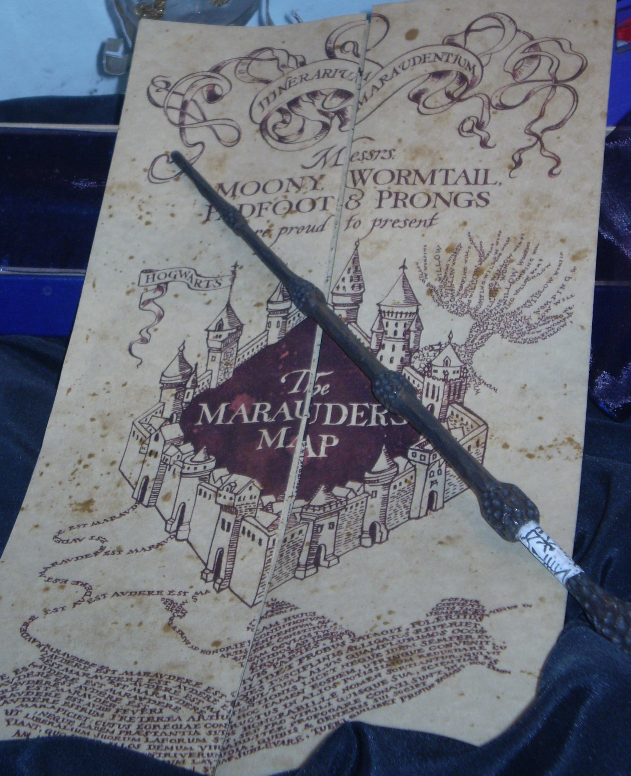 Marauder's Map